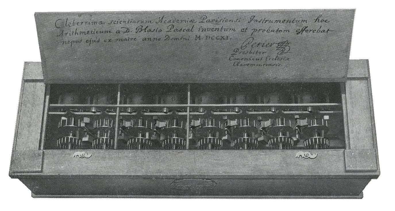 Photo of a 'Pascaline', the mechanical calculator invented and manufactured by French scientist Blaise Pascal around 1642. From the accompanying text: "The machine has been reversed, and the bottom of the casing, which is hinged, thrown back, showing the numeral wheels and gearing of the different orders, and the transfer levers for the carry of the tens." The gearing worked similarly to a car's odometer. Alterations: removed frame and figure number, rotated image to justify, and increased brightness. Can anyone translate the handwritten card on it?